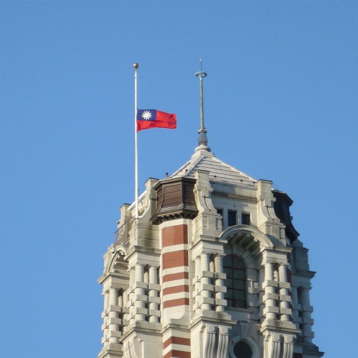 The national flag of the Republic of China at half-staff for August 8 Flood.